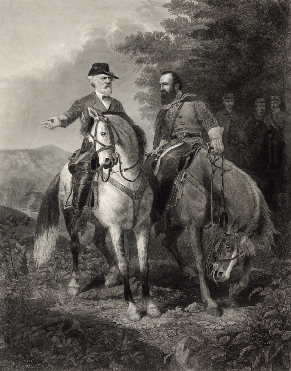 In 1869, Everett B. D. Julio painted this scene of the Civil War generals and their horses. It depicts their meeting on May 1, 1863, just before the tragic death of Jackson.